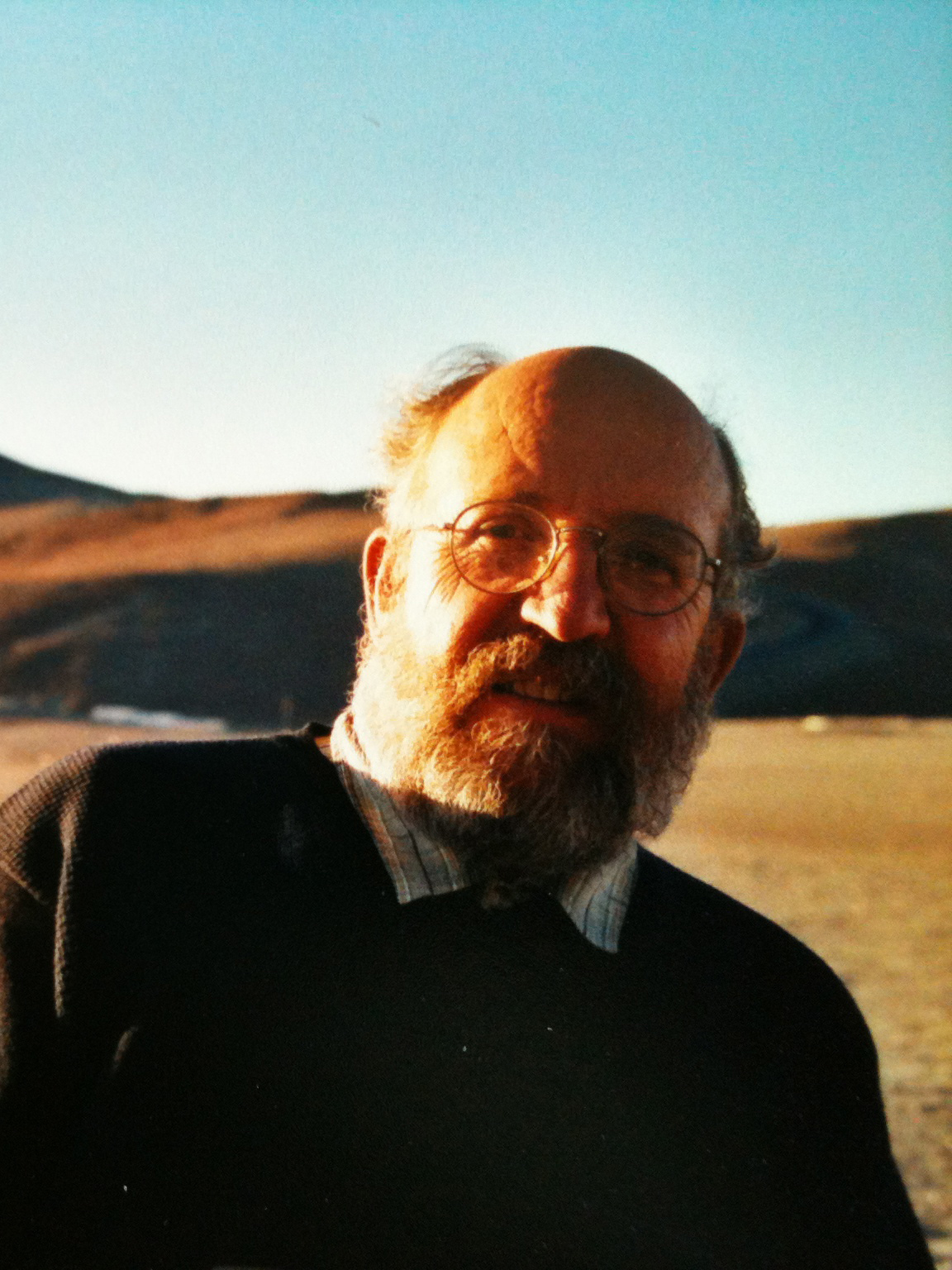 Michel Mayor, astrophysicist, in front of the Very Large Telescope (Chile), in 2004.